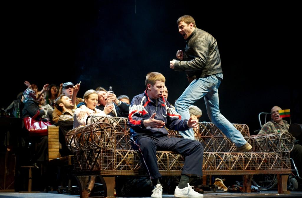 Išvarymas (Expulsion), director Oskaras Koršunovas. Photo by Tomas Lukšys